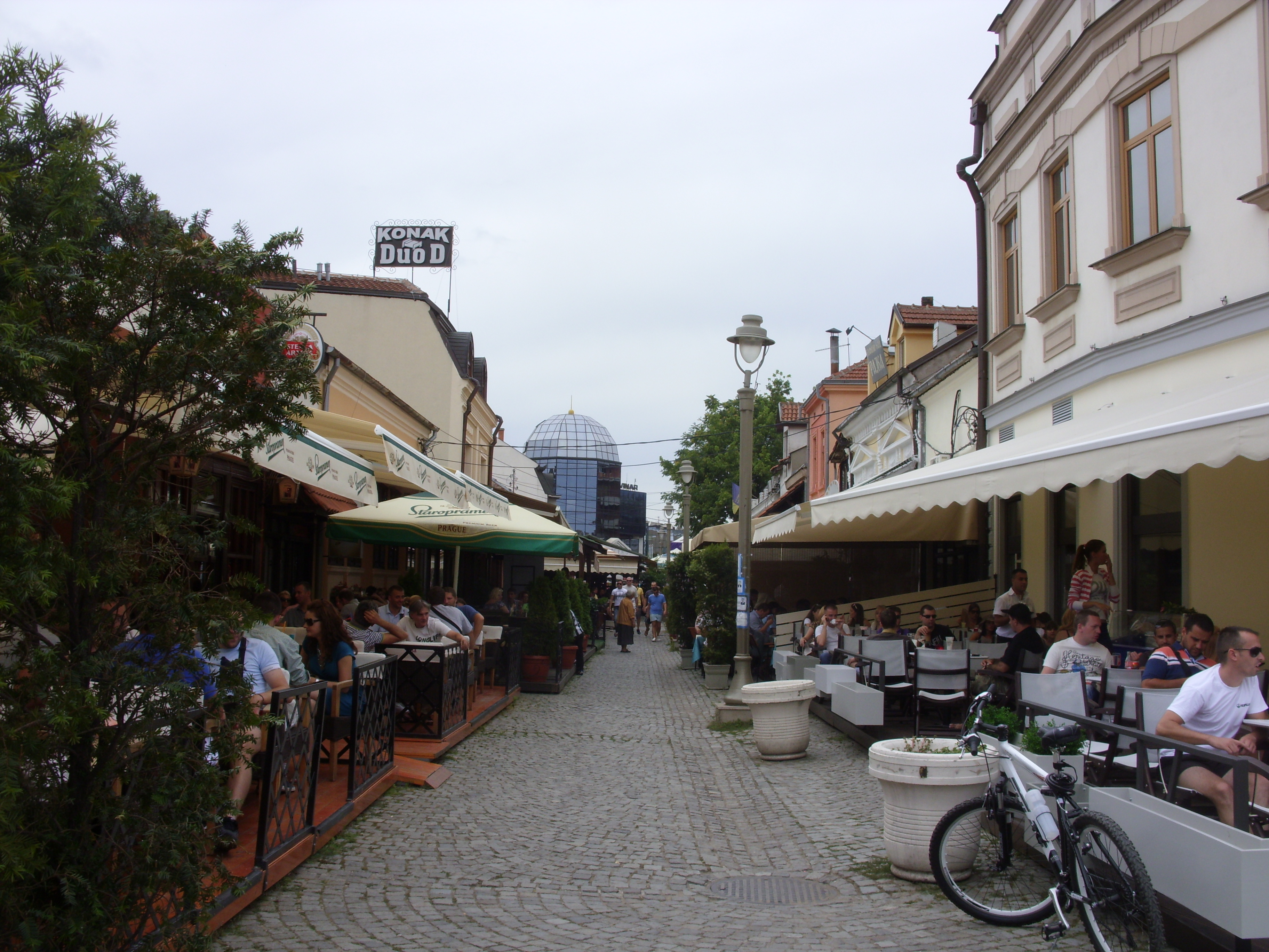 Nis, Serbia